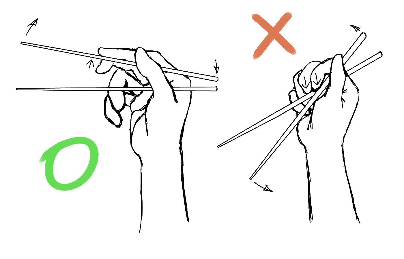 Chopsticks usage